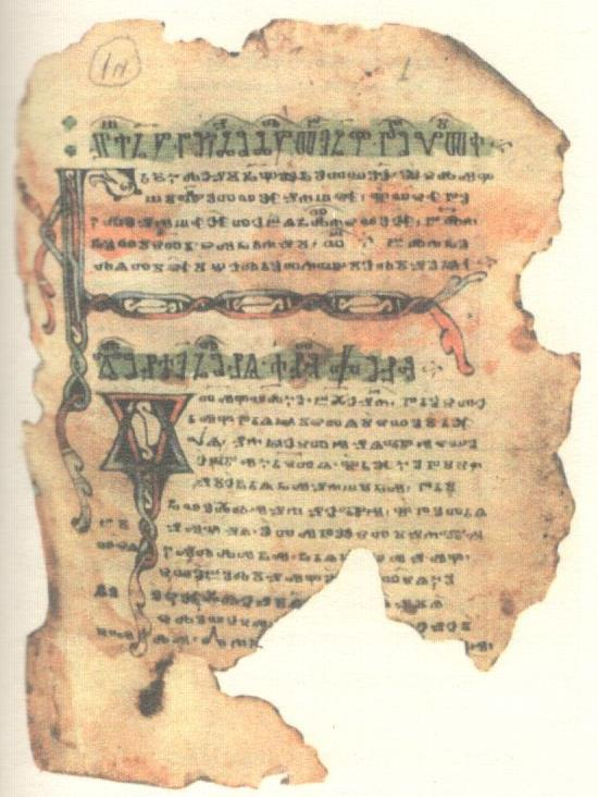 Glagolitic manuscript from the Sinai Monastery (X-XI century)